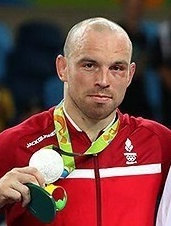 Wrestling at the 2016 Summer Olympics – Men's Greco-Roman 75 kg